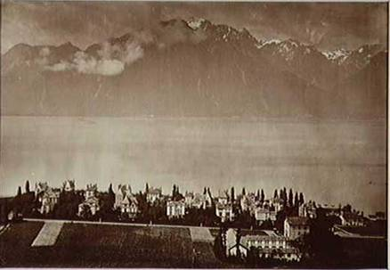 Clarens